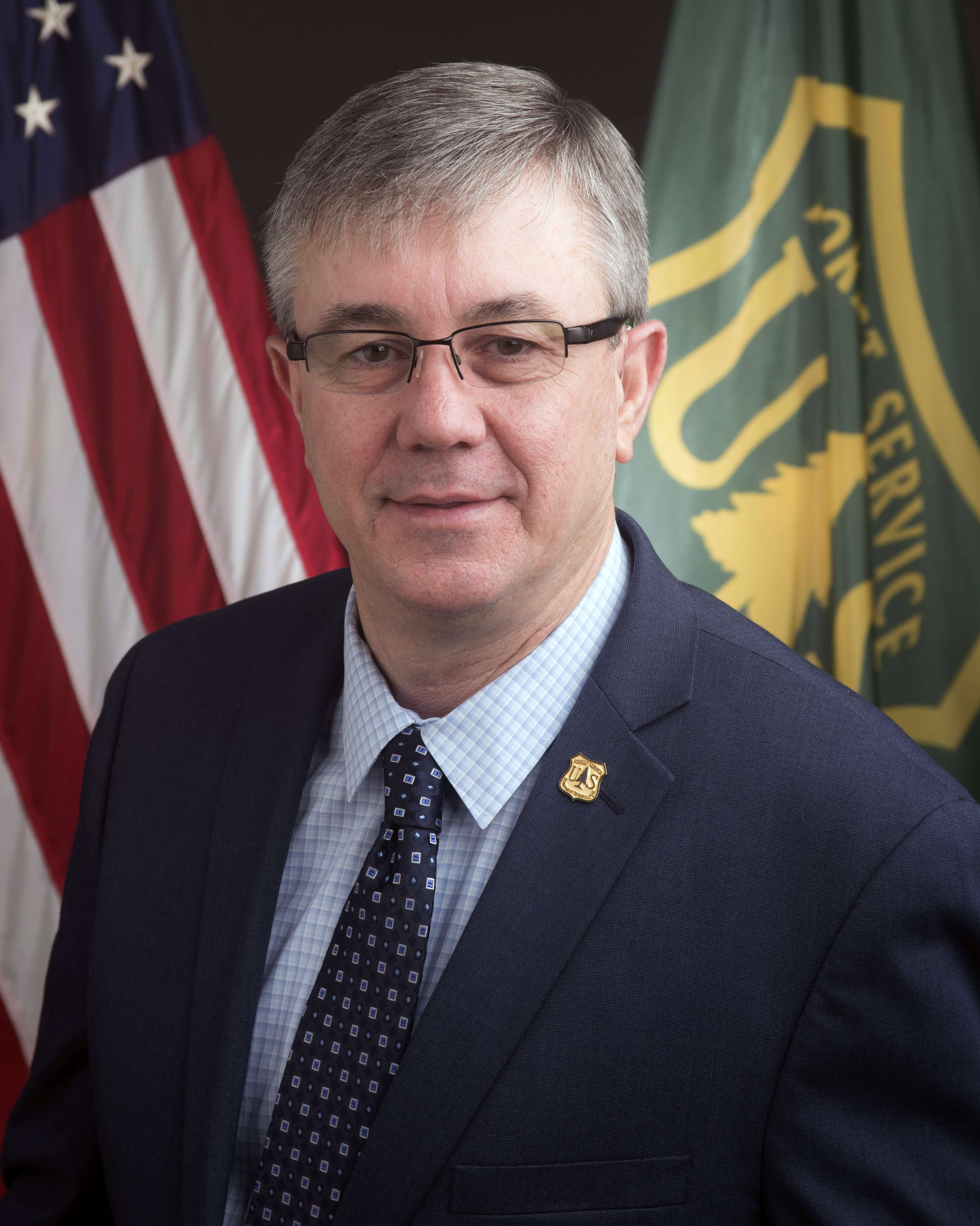 Chief of the U.S. Forest Service Tony Tooke in Washington, DC, on Tuesday, Oct. 25, 2017. USDA photo by Ken Hammond